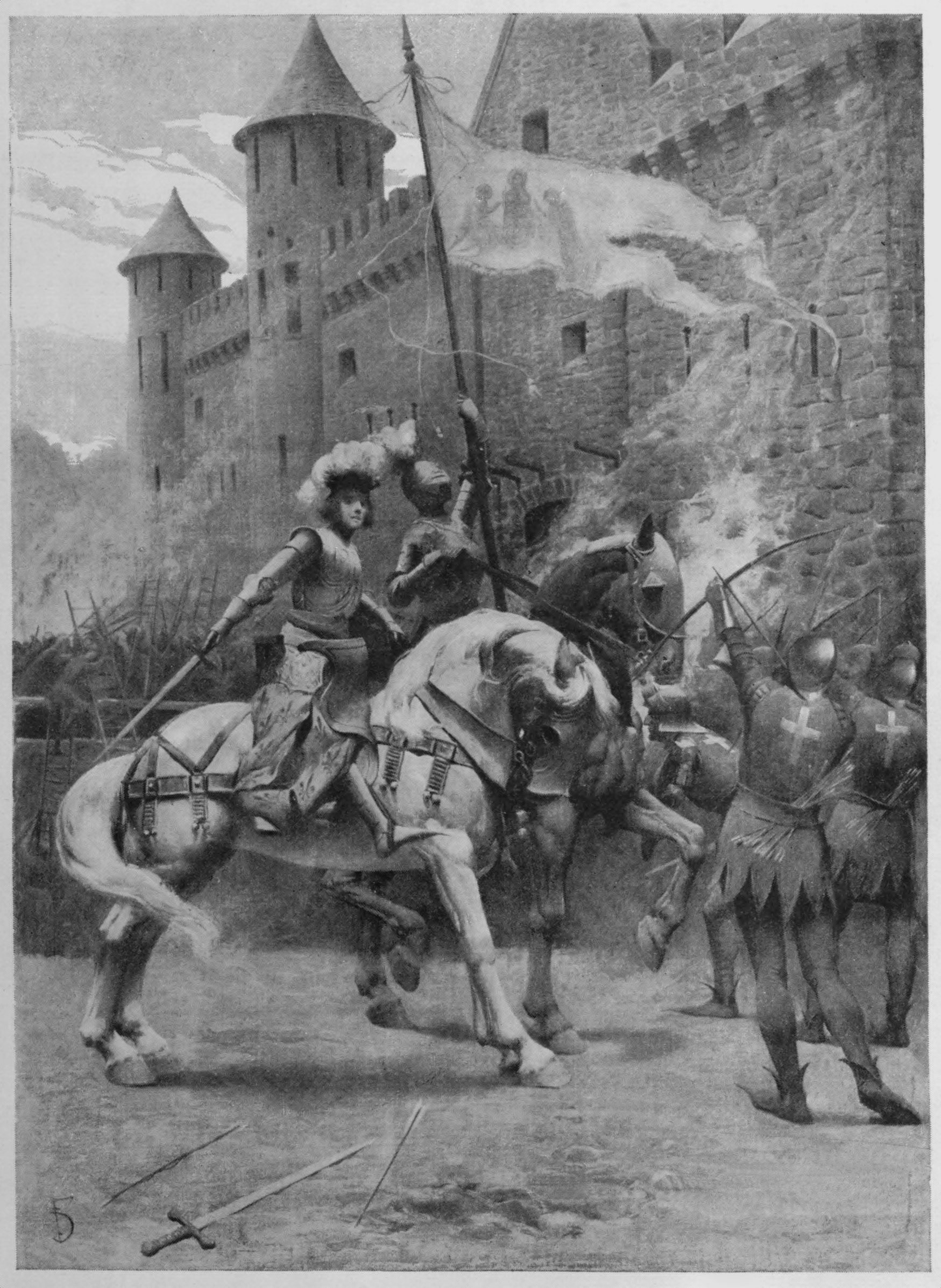 Drawing in Personal Recollections of Joan of Arc by Mark Twain. The 1906 edition includes original drawings by Frank DuMond. From page 277 of File:Personal Recollections of Joan of Arc.djvu.